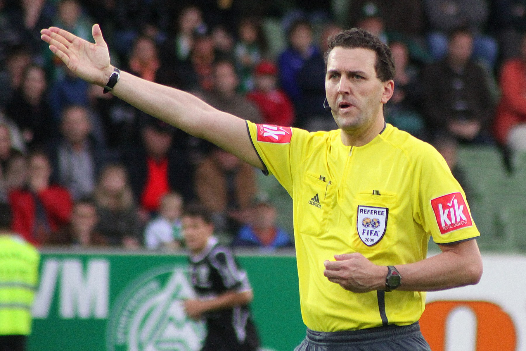 Thomas Einwaller - Referee of Austria